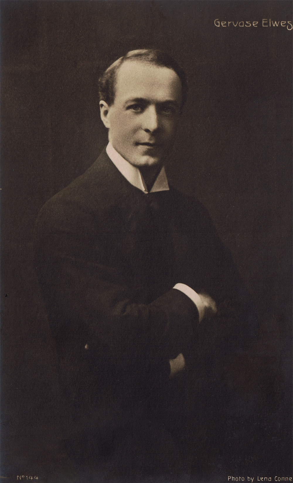 postcard/photograph of Gervase Elwes (1886–1921) (tenor)